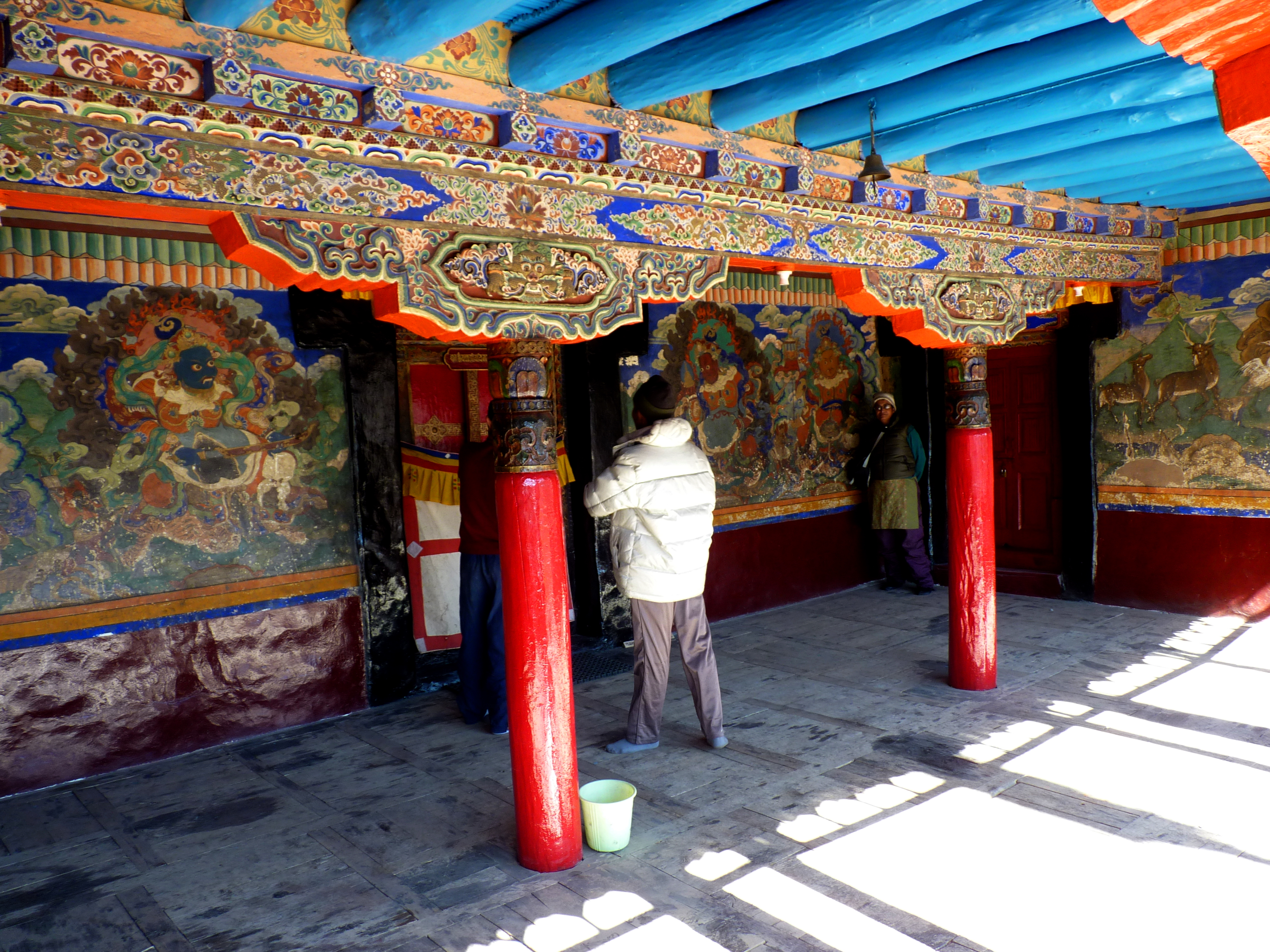 Mural Paintings of Sankar Gompa